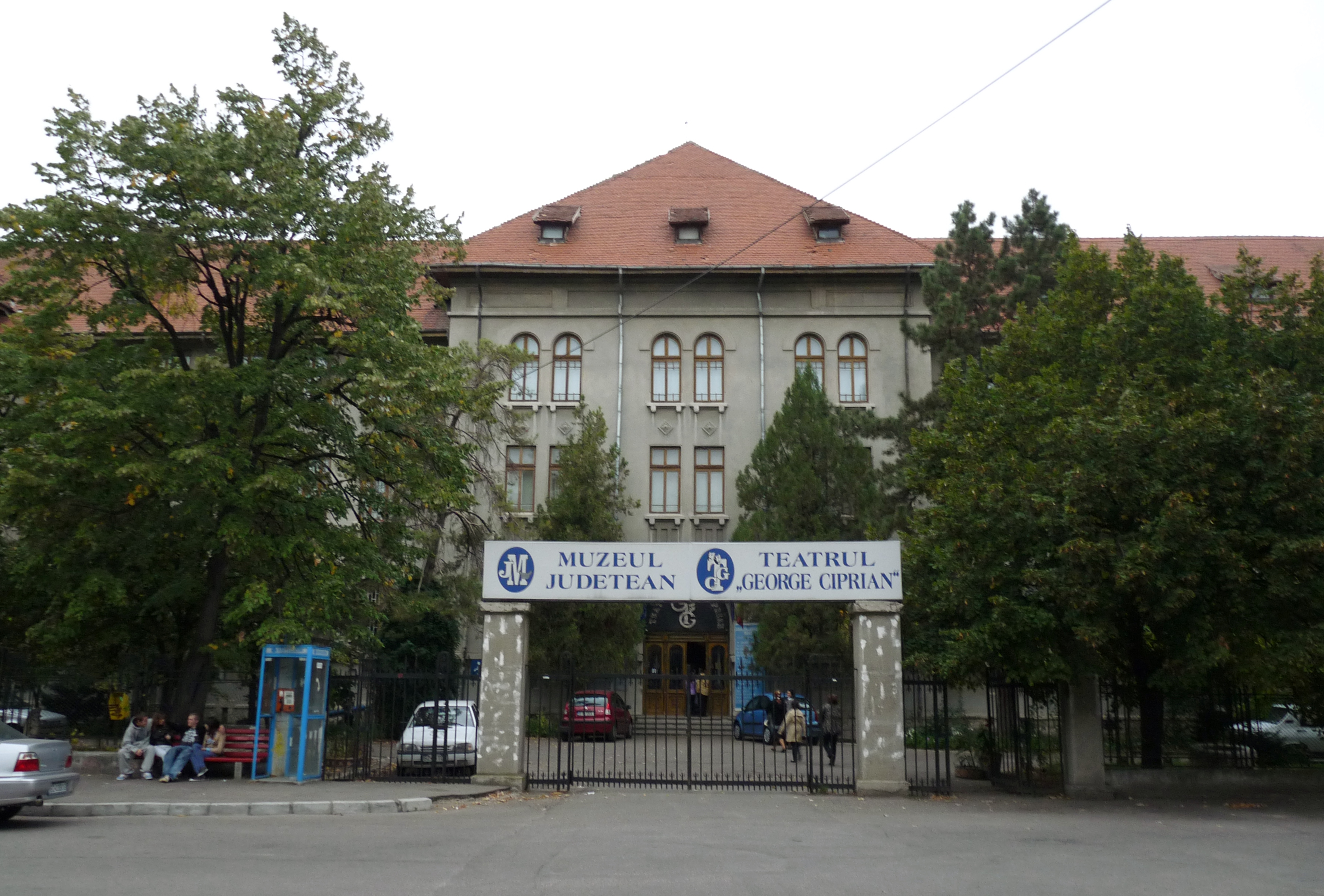 County museum in Buzău, RomaniaRomână: Muzeul Judeţean din Buzău, România